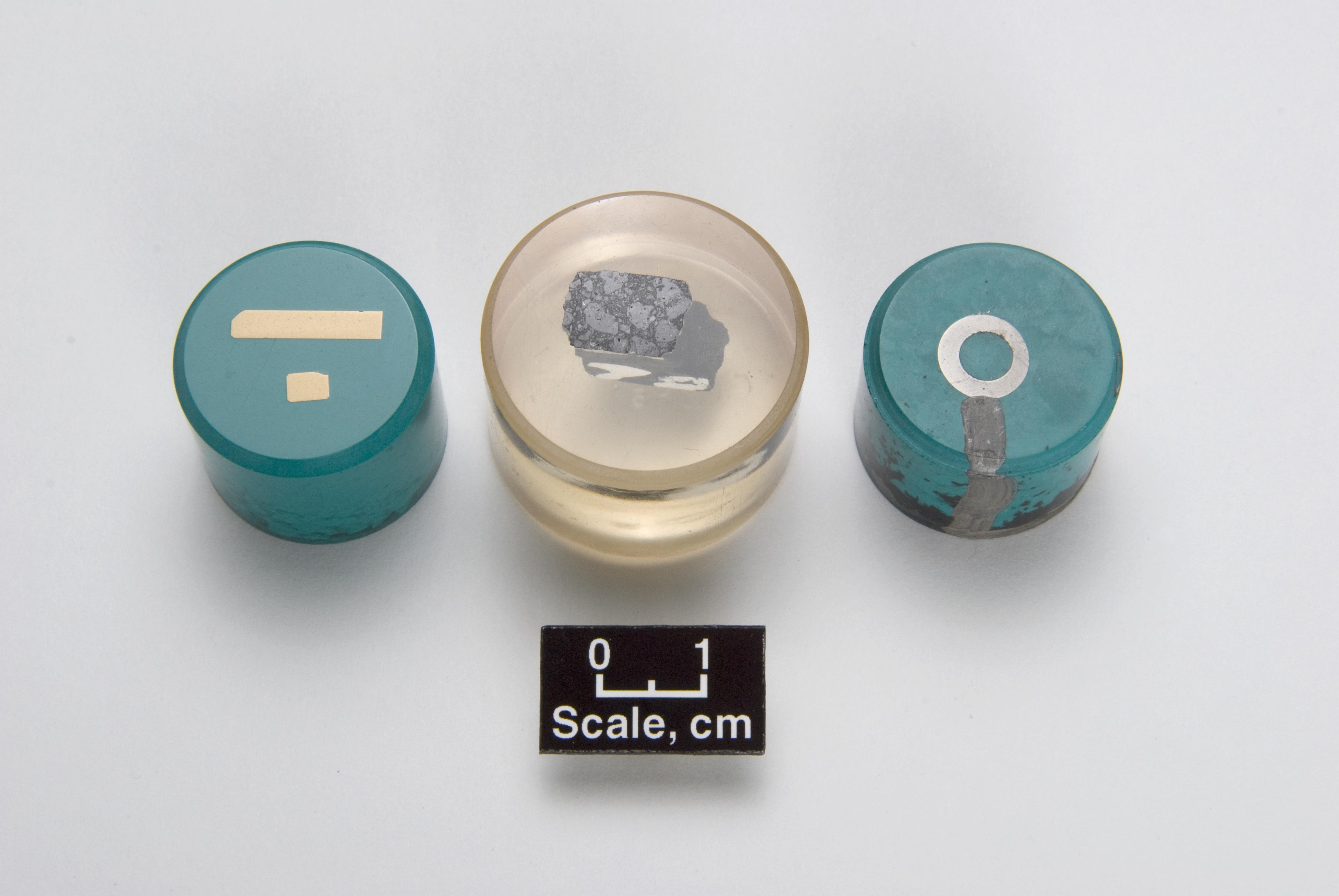 Left to right: Ceramographically mounted titanium nitride (TiN) bar and chromia-alumina (Cr2O3-Al2O3) refractory brick, and metallographically mounted steel bicycle hub axle cross-section.